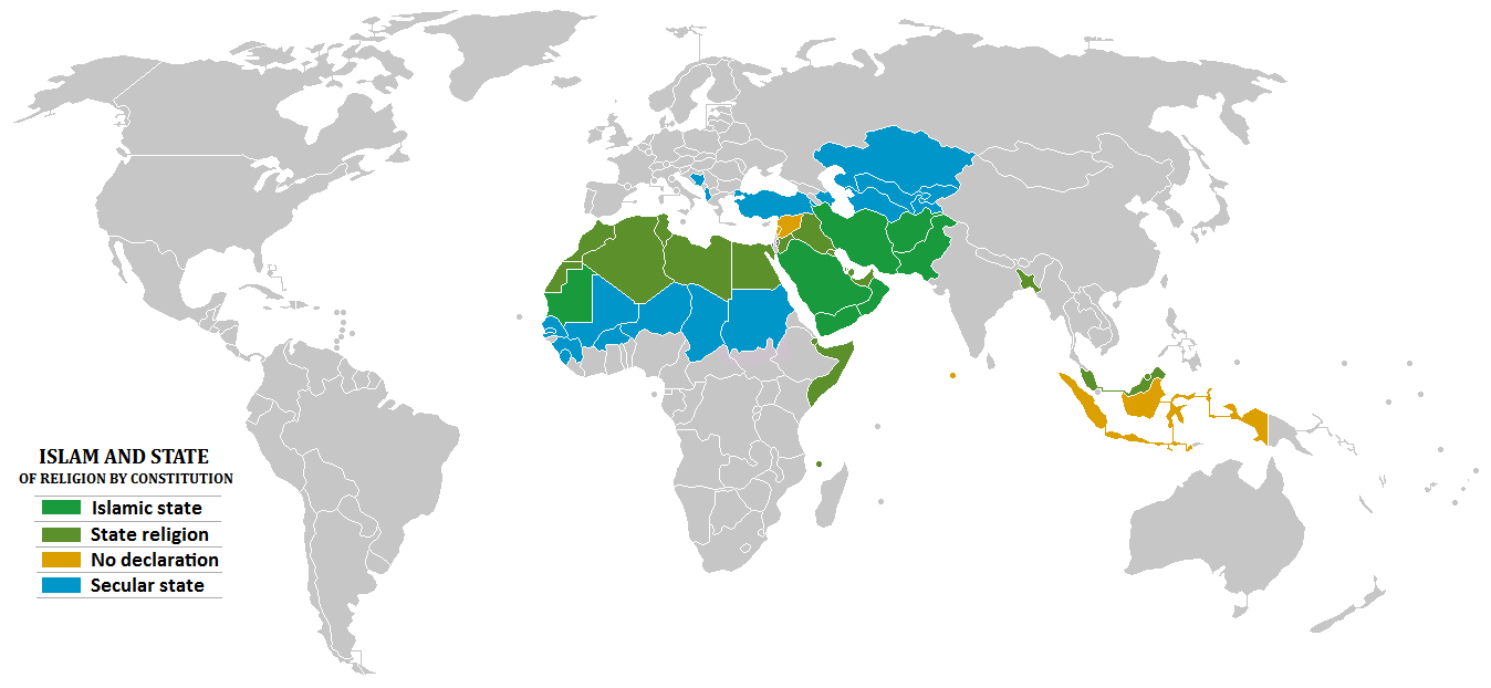 Map of the Muslim world, by religious attitudes of states, by constitution.